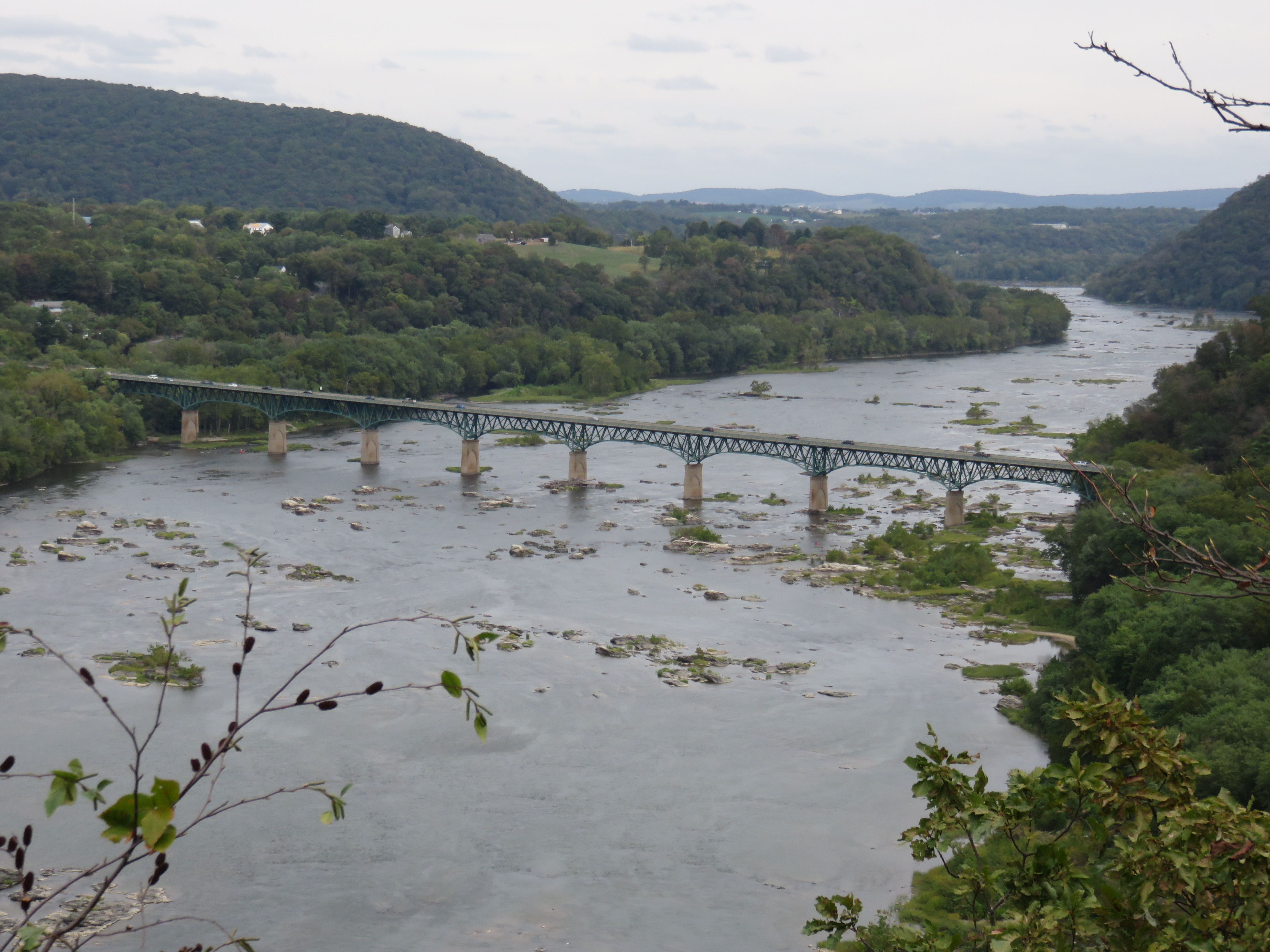 The Sandy Hook Bridge carrying US-340 over the Potomac River in Sandy Hook, Maryland, viewed from Loudon Heights in 2015